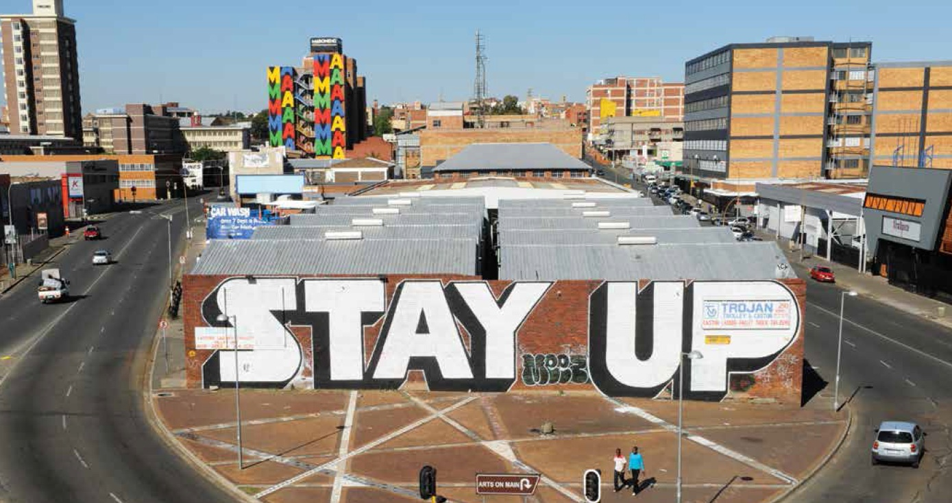 A hub for Art